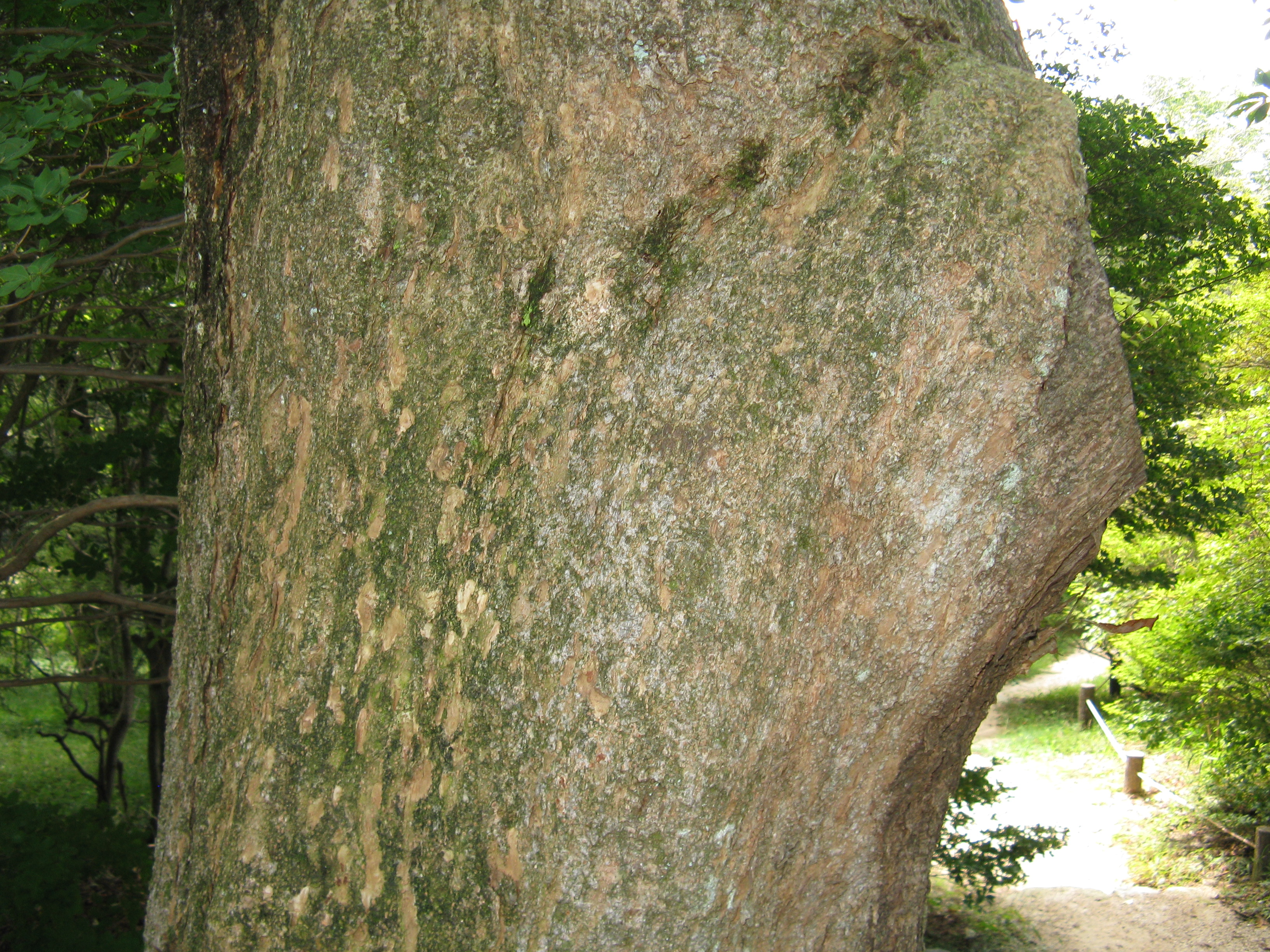 Scientific name Lindera erythrocarpa